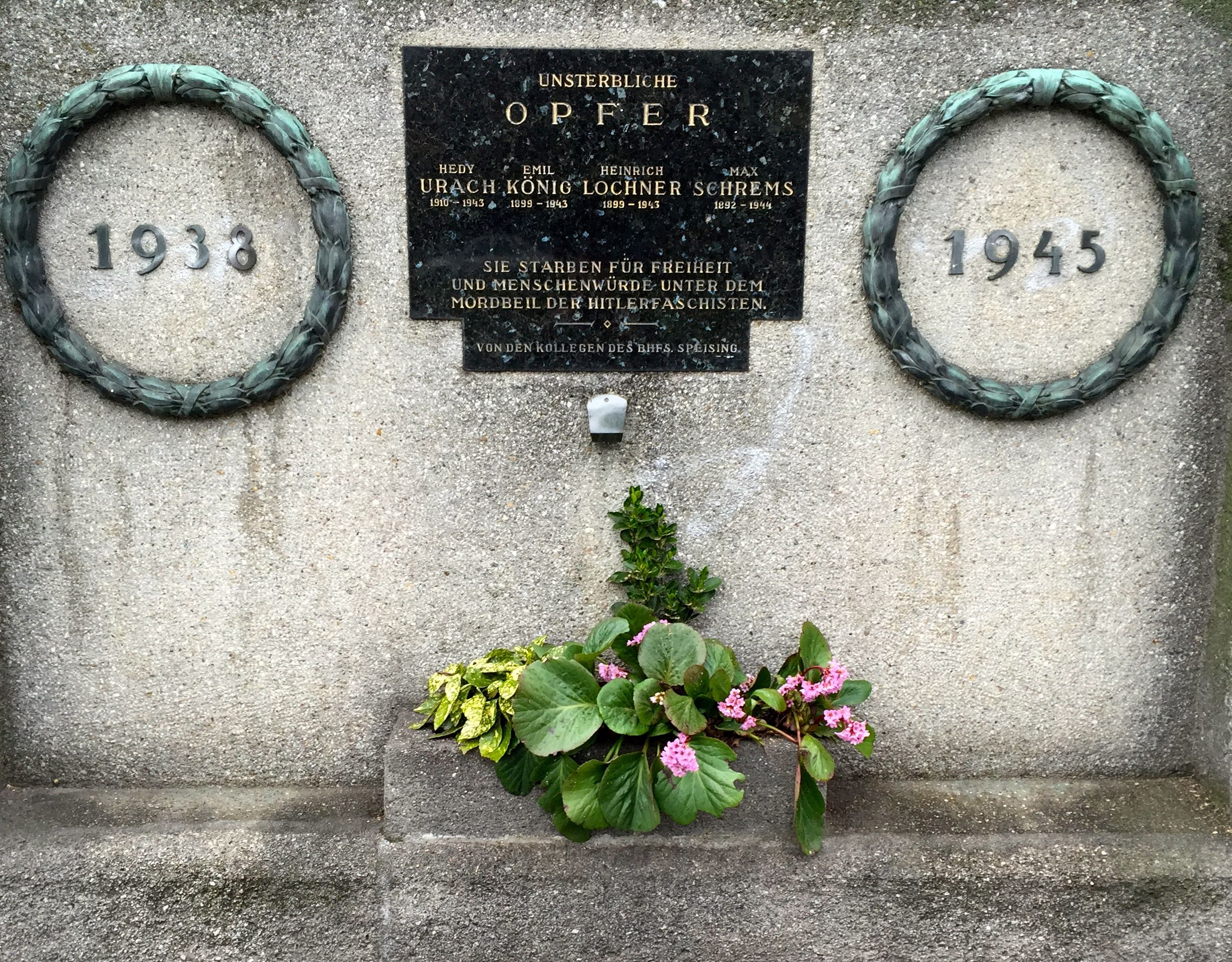 Monument for Viennese Tram Drivers beheaded by the Nazis